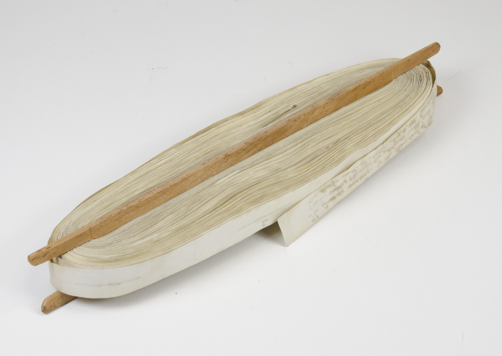 Ink on paper | 6.5 x 31.0 x 3.5 cm (whole object) | RCIN 84450 The original tickertape recording of Queen Victoria's message to the President of the United States, James Buchanan, transmitted by submarine cable from Ireland to Newfoundland on 16 August 1858. This message was the first official transatlantic cable ever sent. The text of the tickertape reads: " TO THE PRESIDENT OF THE UNITED STATES, WASHINGTON The Queen desires to congratulate the President upon the successful completion of this great international work, in which The Queen has taken the deepest interest. The Queen is convinced that the President will join her in fervently hoping that the electric cable, which now connects great Britain with the United States, will prove an additional link between the nations, whose friendship is founded upon their common interest and reciprocal esteem. The Queen has much pleasure in thus communicating with the President, and renewing to him her wishes for the prosperity of the United States."